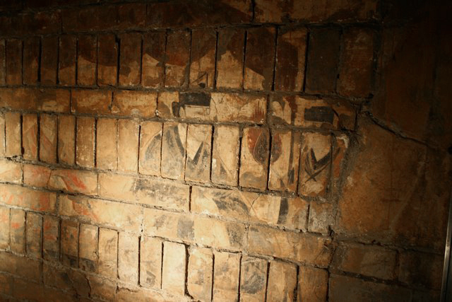 A mural on tomb brick of robed and seated figures, from a Cao Wei Dynasty (220–265 AD) tomb in Luoyang, China.